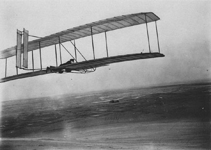 Flyer